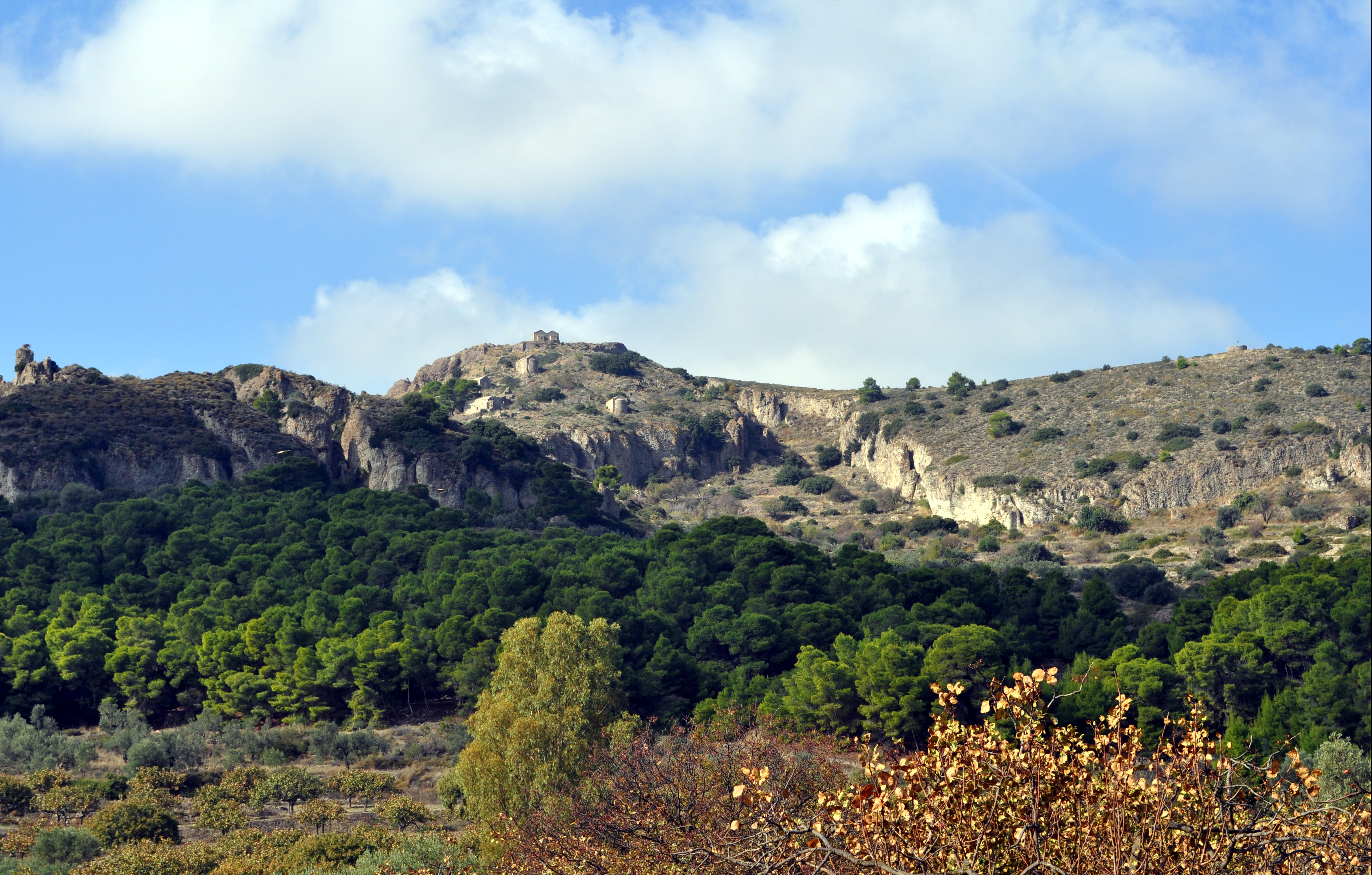 View of Aegina. In the centre of the background, the hill of Palaiochora (or Paleochora, gr. Παλαιοχώρα), an abandoned village. While the houses of the village have been destroyed, more than 30 churches and chapels have been preserved.